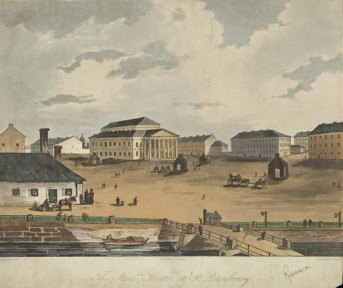 "The Stone Theatre at St. Petersburg", depicting the Bolshoi Kamenny Theatre; hand coloured aquatint, published London 2nd January 1809, Victoria & Albert Museum, Museum number: S.3278-2009